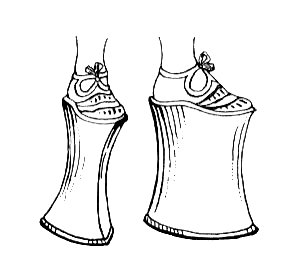 line art drawing of a chopine (16th-century Venetian platform shoe for women).